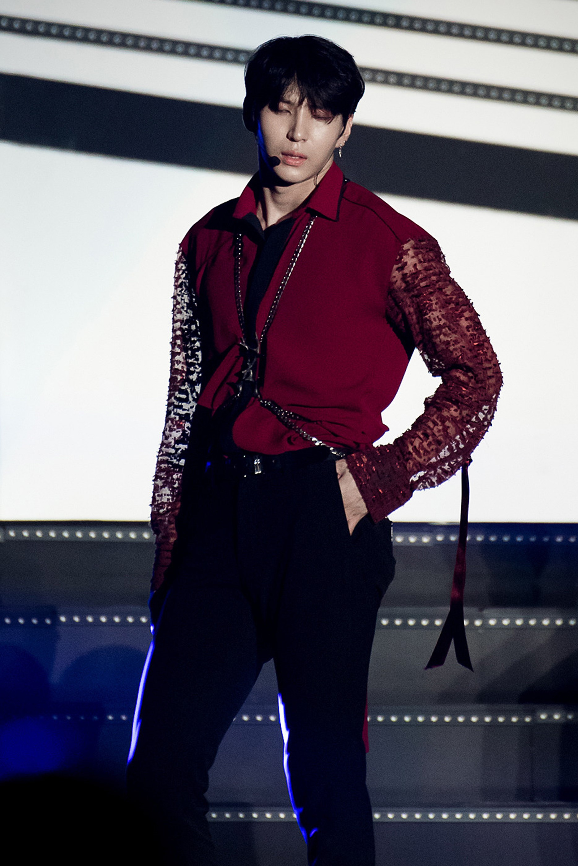 Leo Jung at WFMF concert on September 11, 2016.